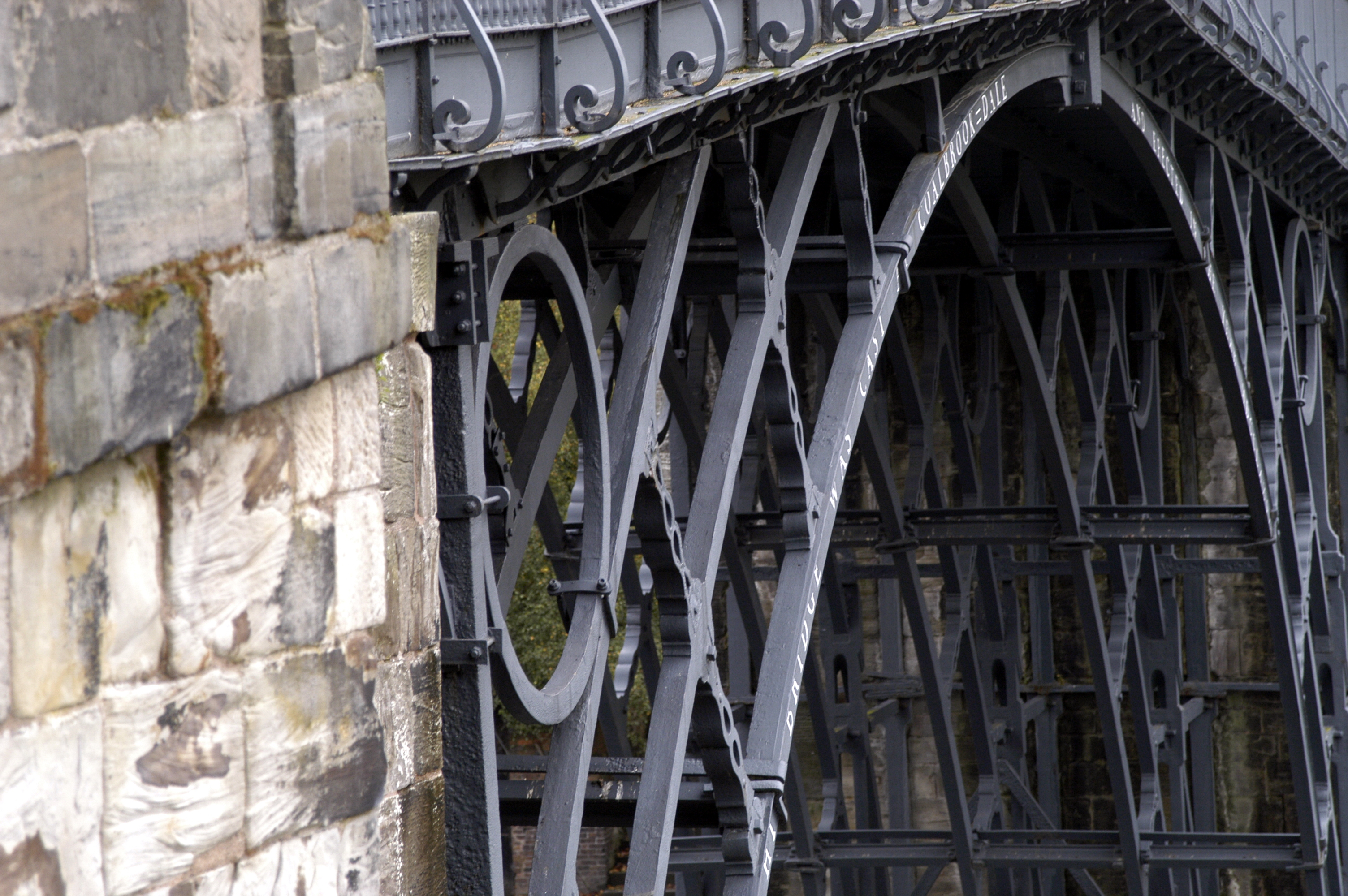 The Iron Bridge: The outer ribs' engraving: ‘This Bridge was cast at Coalbrook-Dale and erected in the year MDCCLXXIX [1779]’.